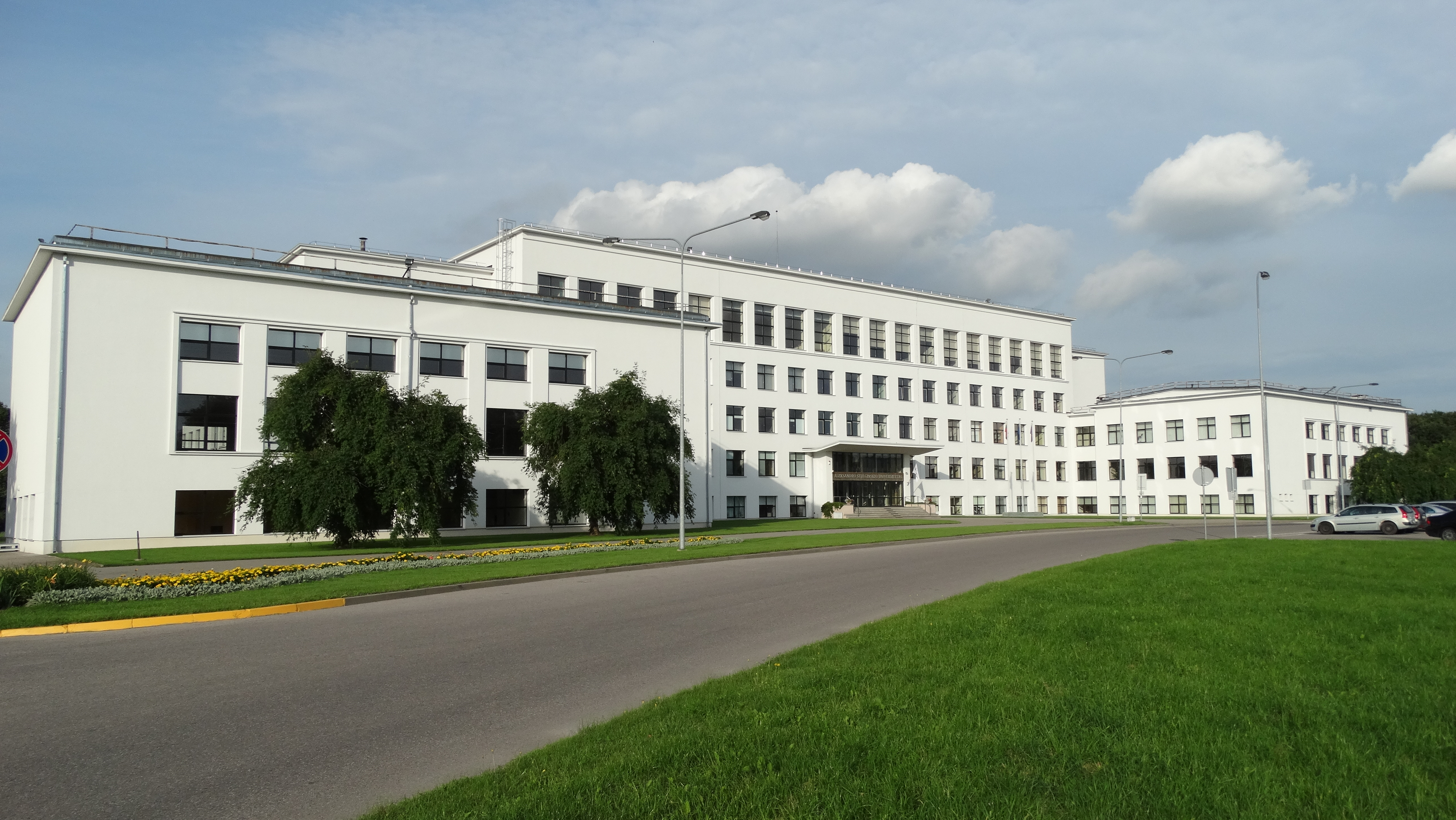 Aleksandras Stulginskis University, Akademija, Kaunas District, Lithuania